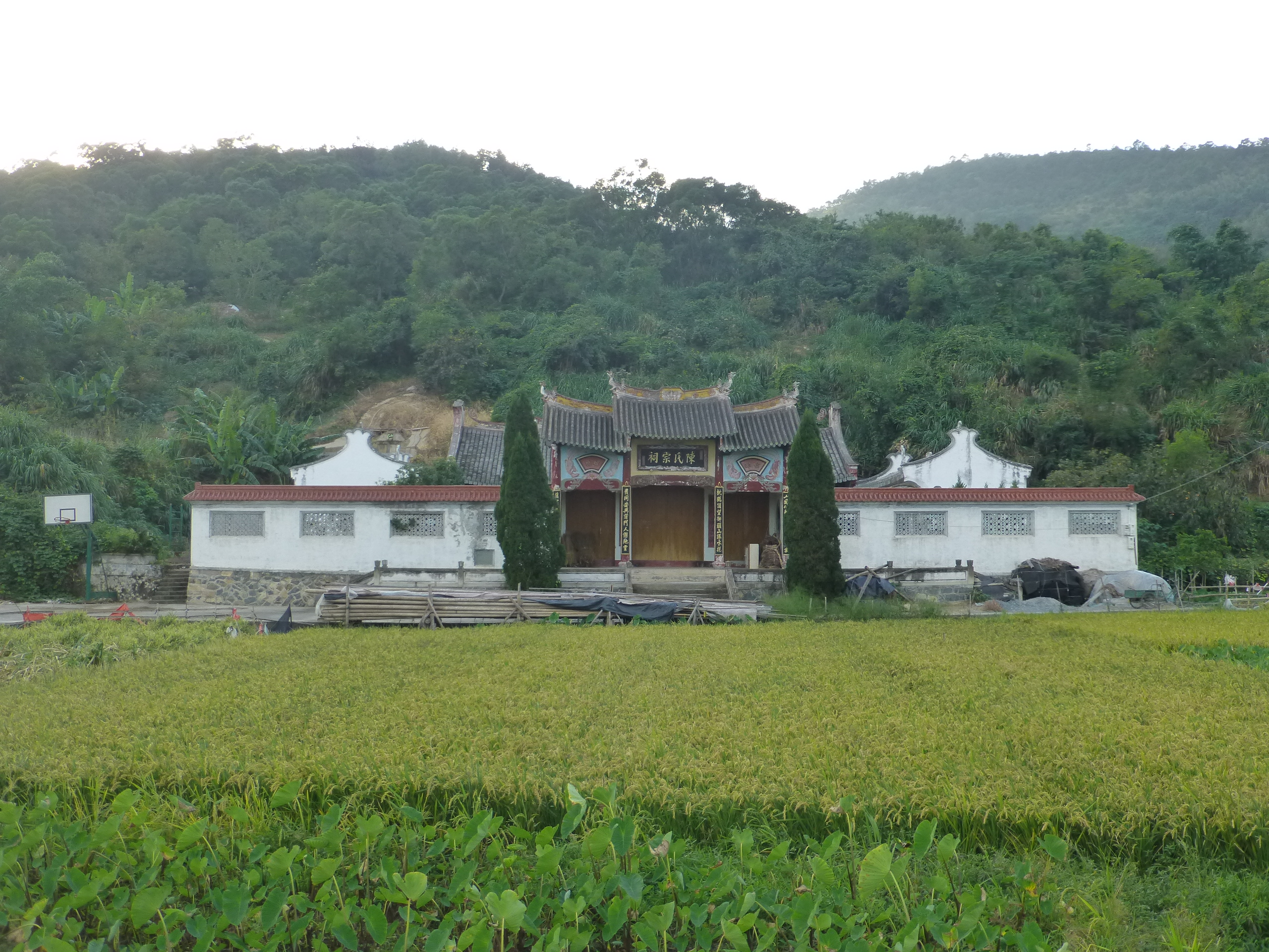 In or around Xiazai village, on the road south from Pucheng walled city. (Mazhan Township, Cangnan County, Zhejiang, China.)